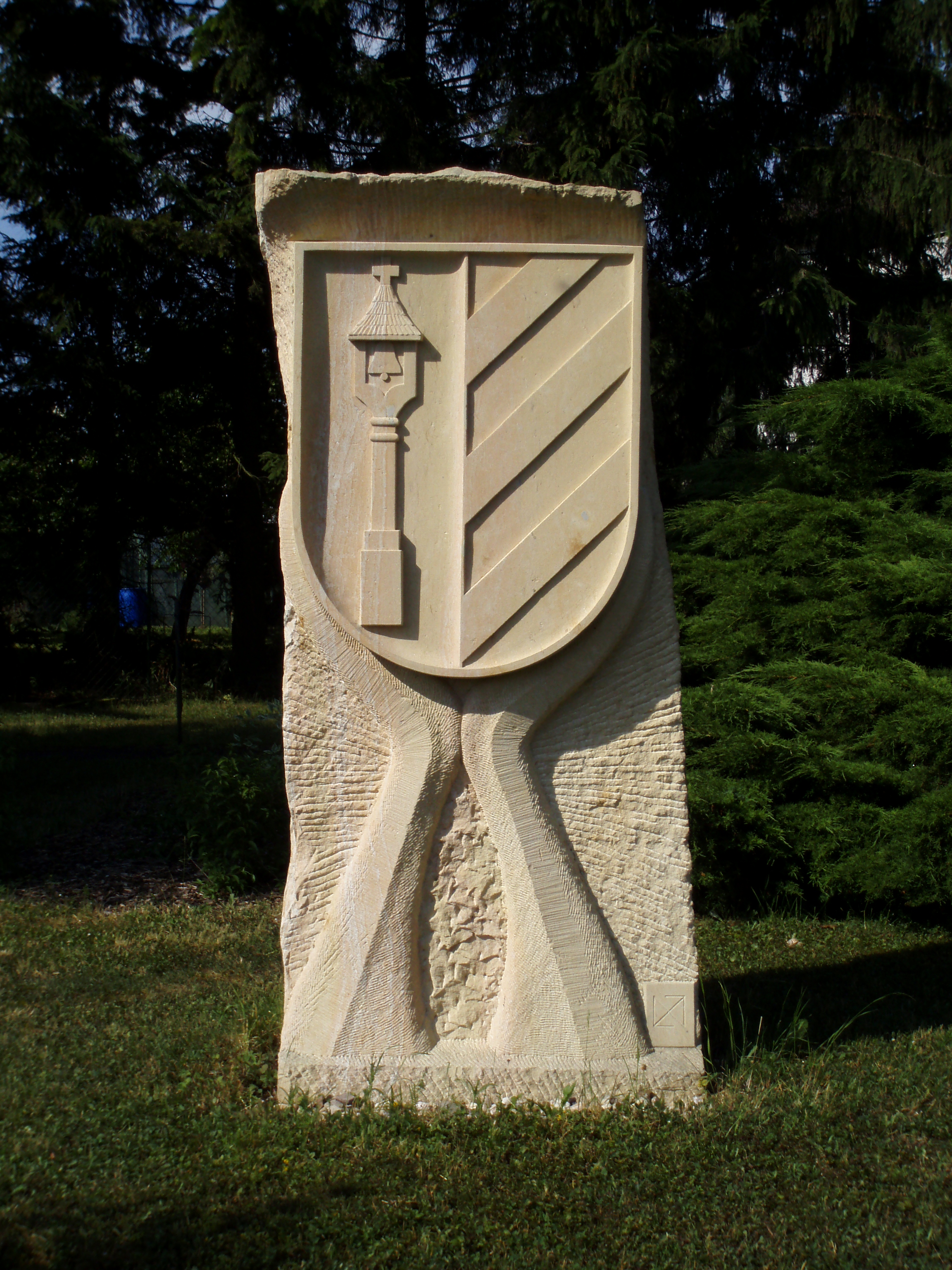 Sculpture with Coat of Arms of Radikovice (District of Hradec Kralove)